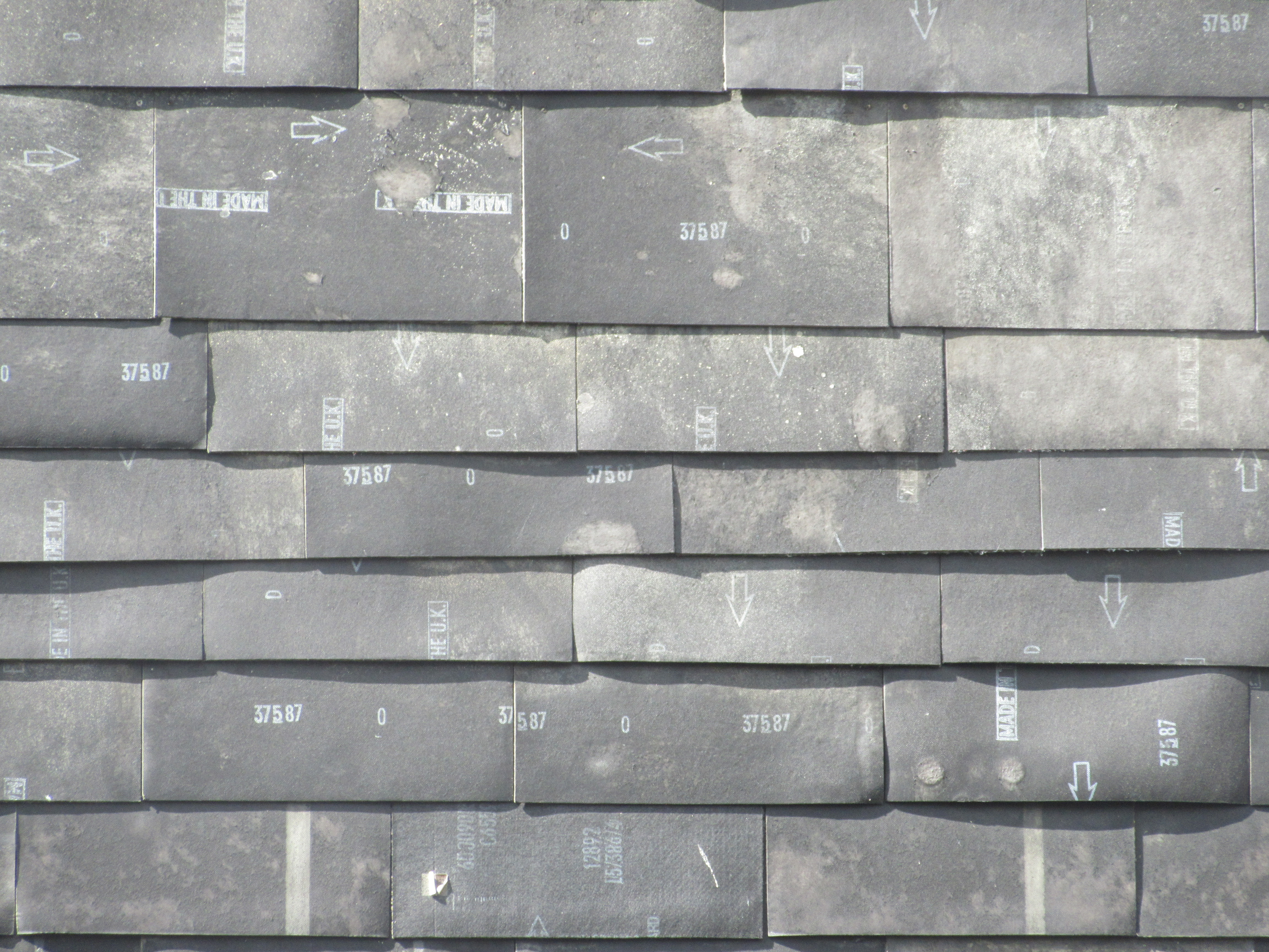 Waste House, junction of Grand Parade Mews and William Street, Brighton, City of Brighton and Hove, England. Built in 2013–14 behind the University of Brighton's Faculty of Arts building on Grand Parade. See the Wikipedia article Waste House for information about this low-energy sustainable building, which is built of construction and household waste.